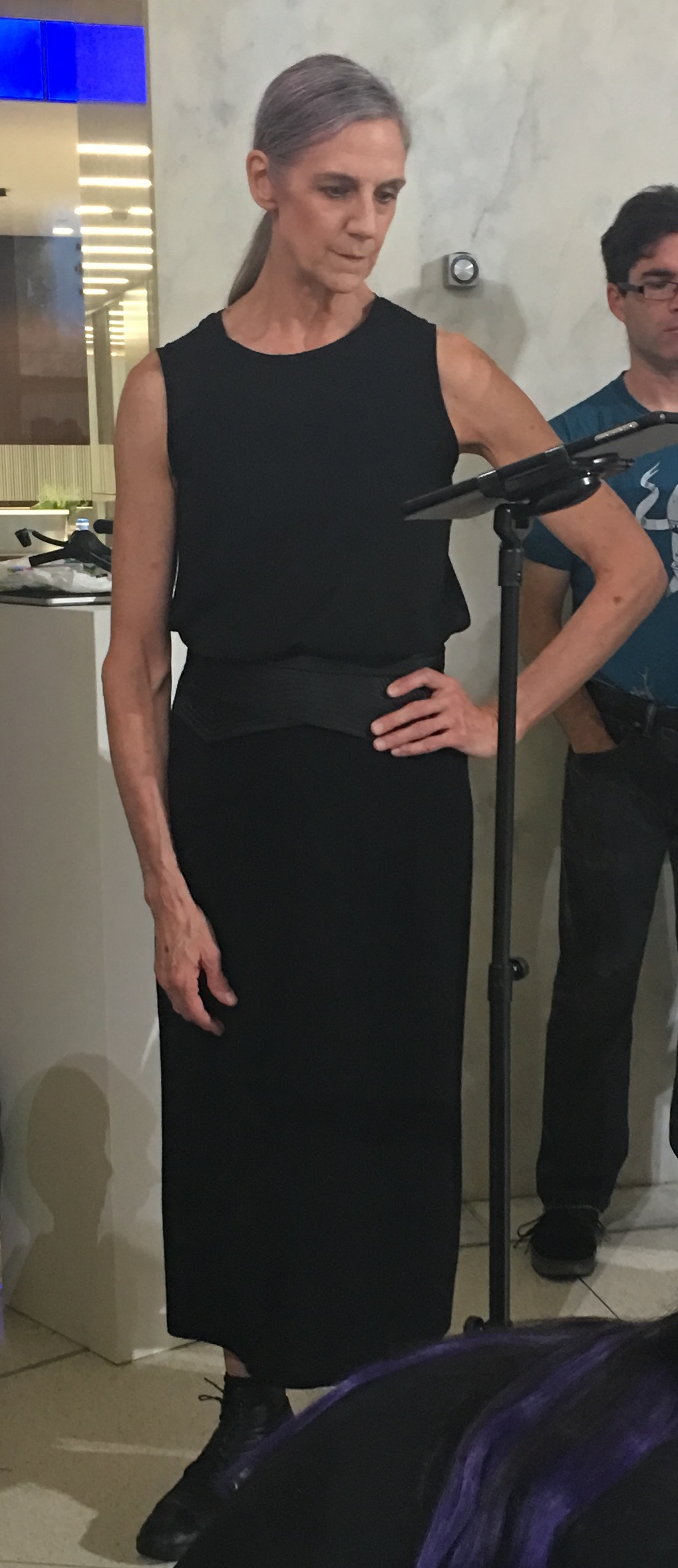 Image of Canadian dancer Peggy Baker at Nuit Blance 2016 in Toronto